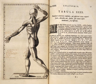 Illustration of Eustachi tab 31 with explanationside